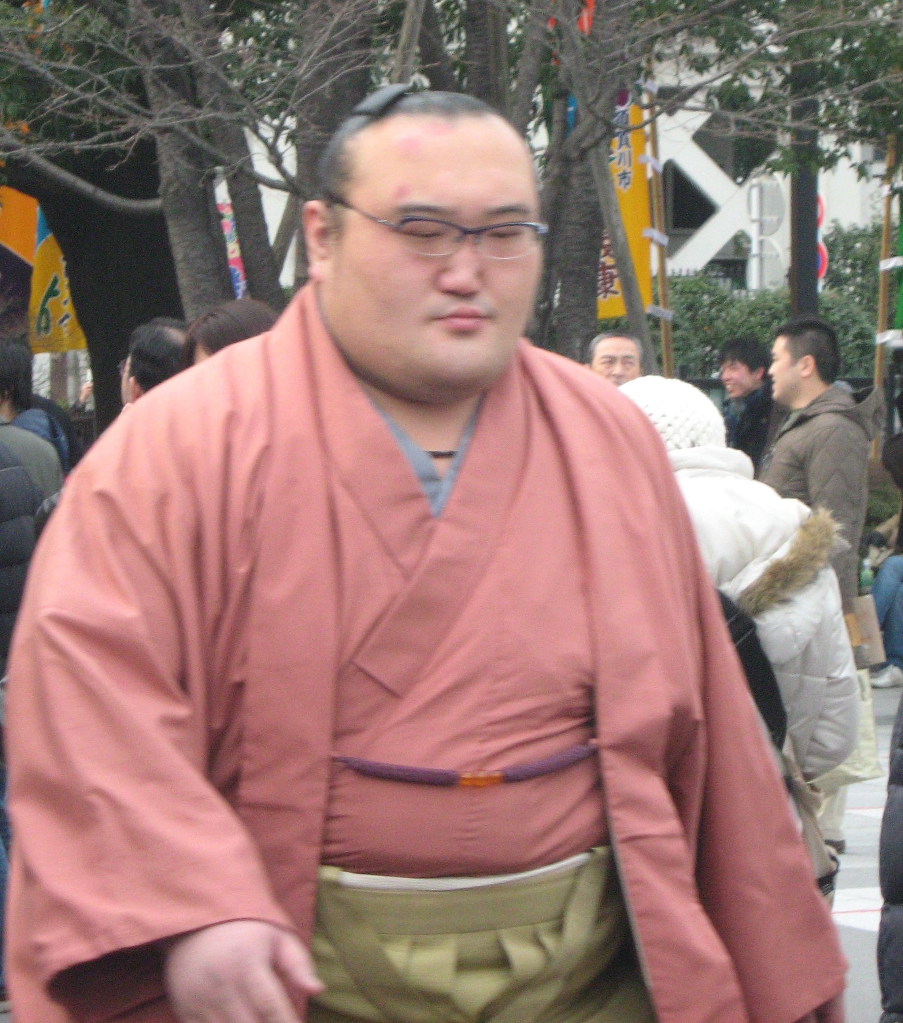 This is a photograph I took at a recent sumo tournament that I release the rights of. User:FourTildes 07:54, 31 May 2008 . . FourTildes . . 1,835×2,079 (1.69 MB)